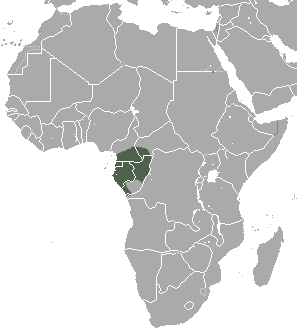 Southern Needle-clawed Bushbaby (Euoticus elegantulus) range